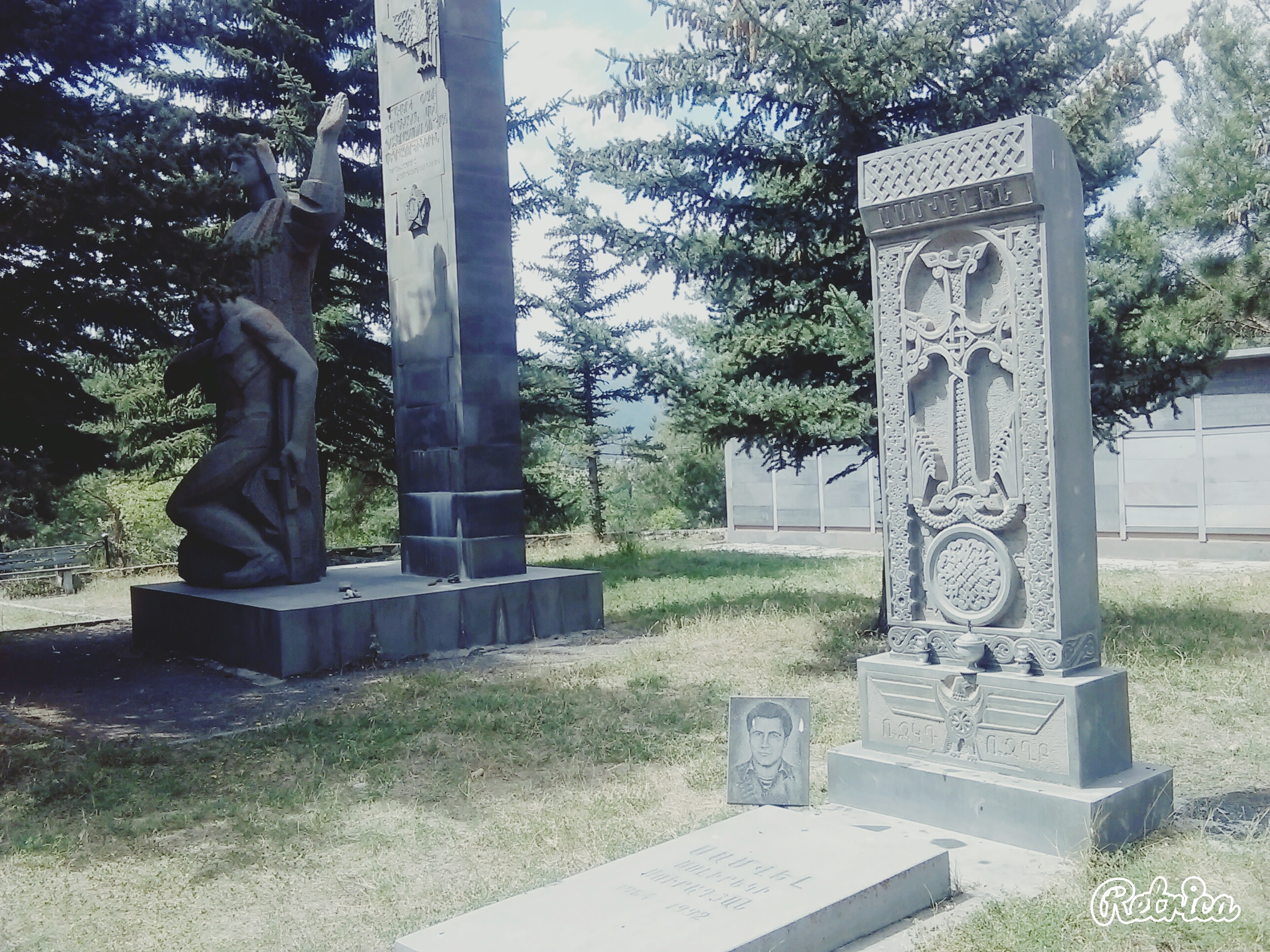 Monument in Meghradzor